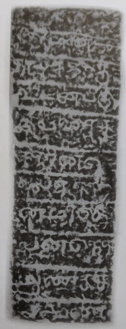 Rankot Vihara Velaikkaran Matevan inscription 2